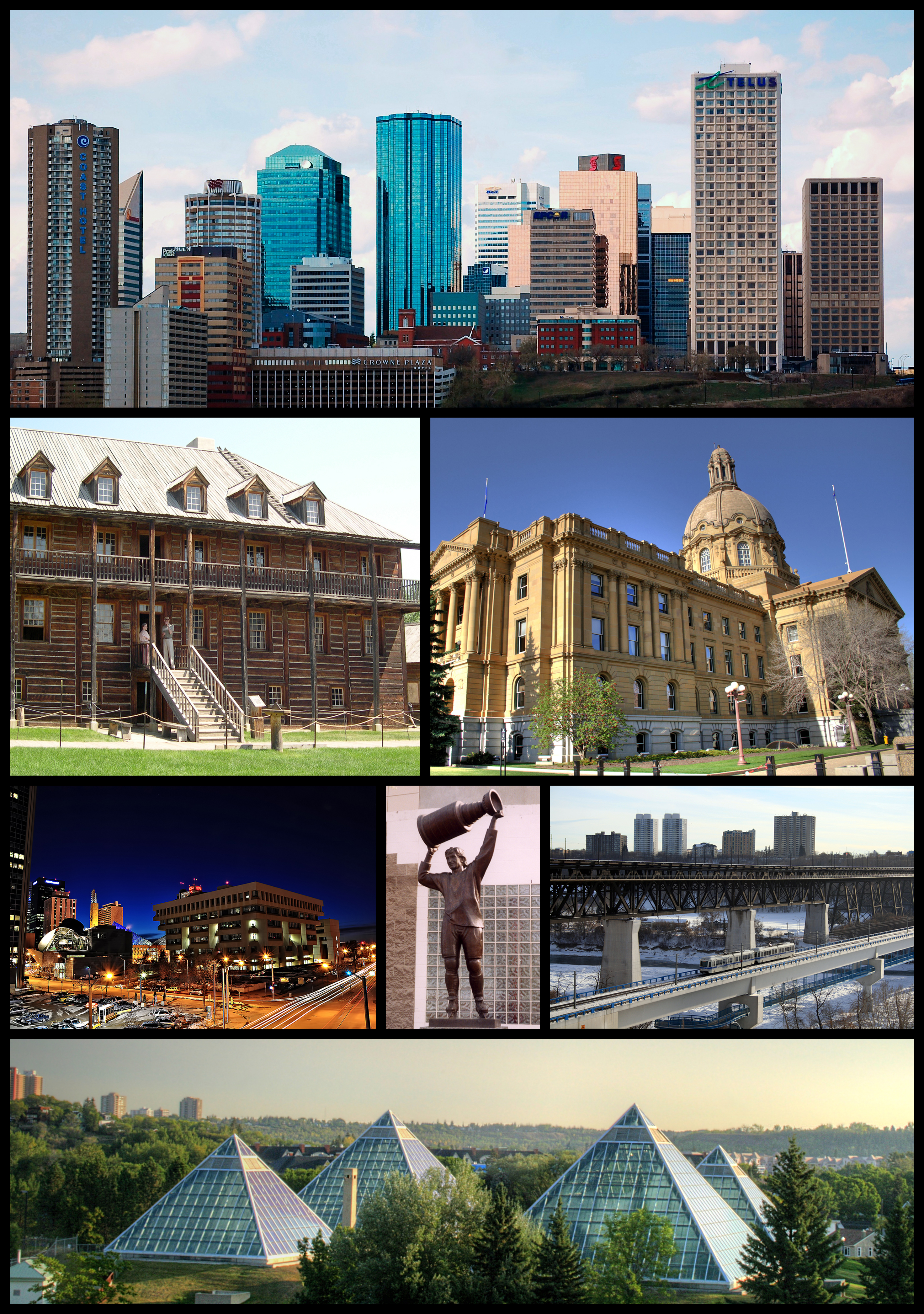 From top left, the skyline of downtown Edmonton from the south bank of the North Saskatchewan River, the Rowand House in the Fort Edmonton courtyard at Fort Edmonton Park, the Alberta Legislature Building from the northeast, the Art Gallery of Alberta, Edmonton City Hall and Law Courts from 102A Avenue and 97 Street, a statue of Wayne Gretzky at the north entrance of Rexall Place, the High Level Bridge and Dudley B. Menzies Bridge from the north bank, and the Muttart Conservatory from the south, in Edmonton.